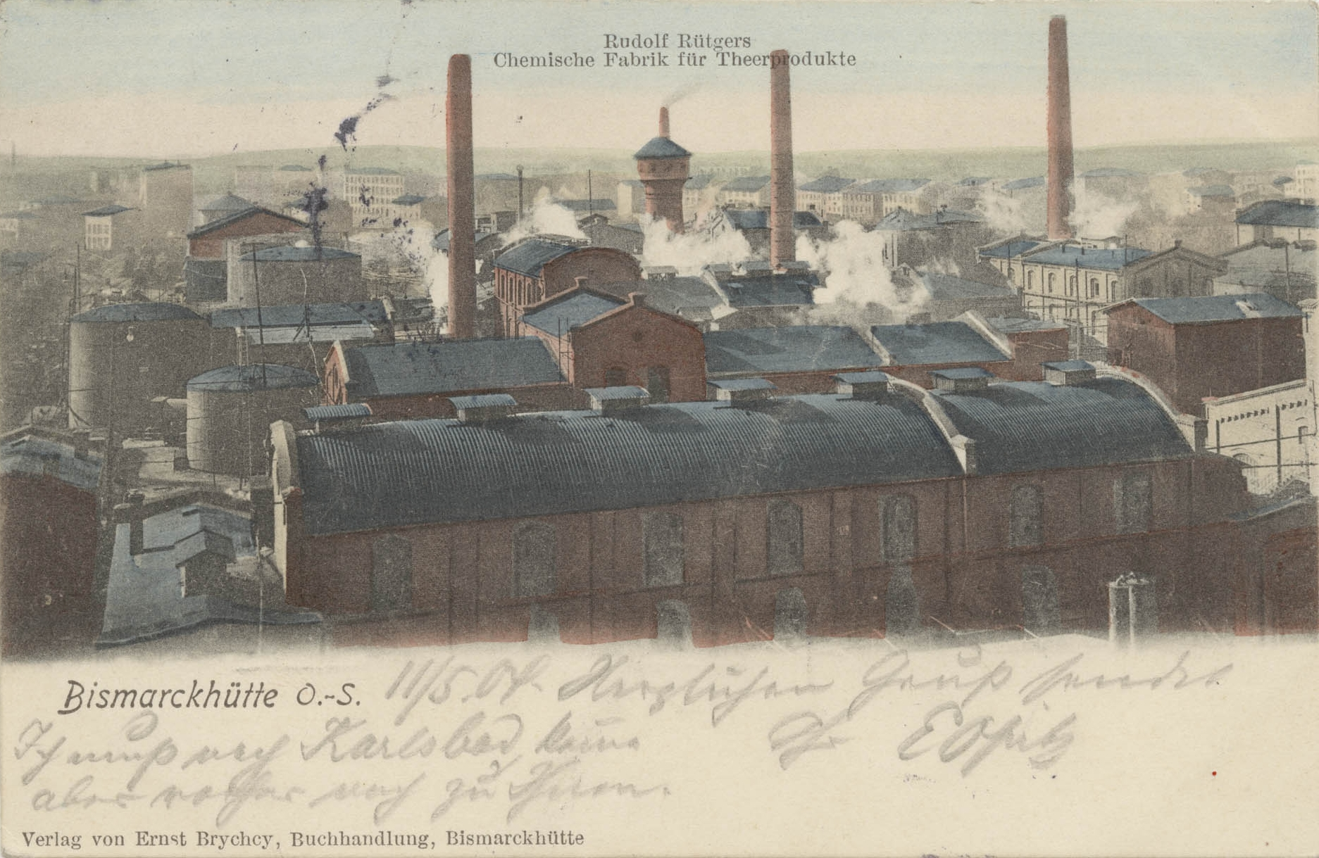 fabryka chemiczna produktów smołowych Rudolfa Rütgersa w Bismarckhütte, niemiecka pocztówka papierowa, oryginalne wymiary: wys.: 90 mm, szer.: 140 mm